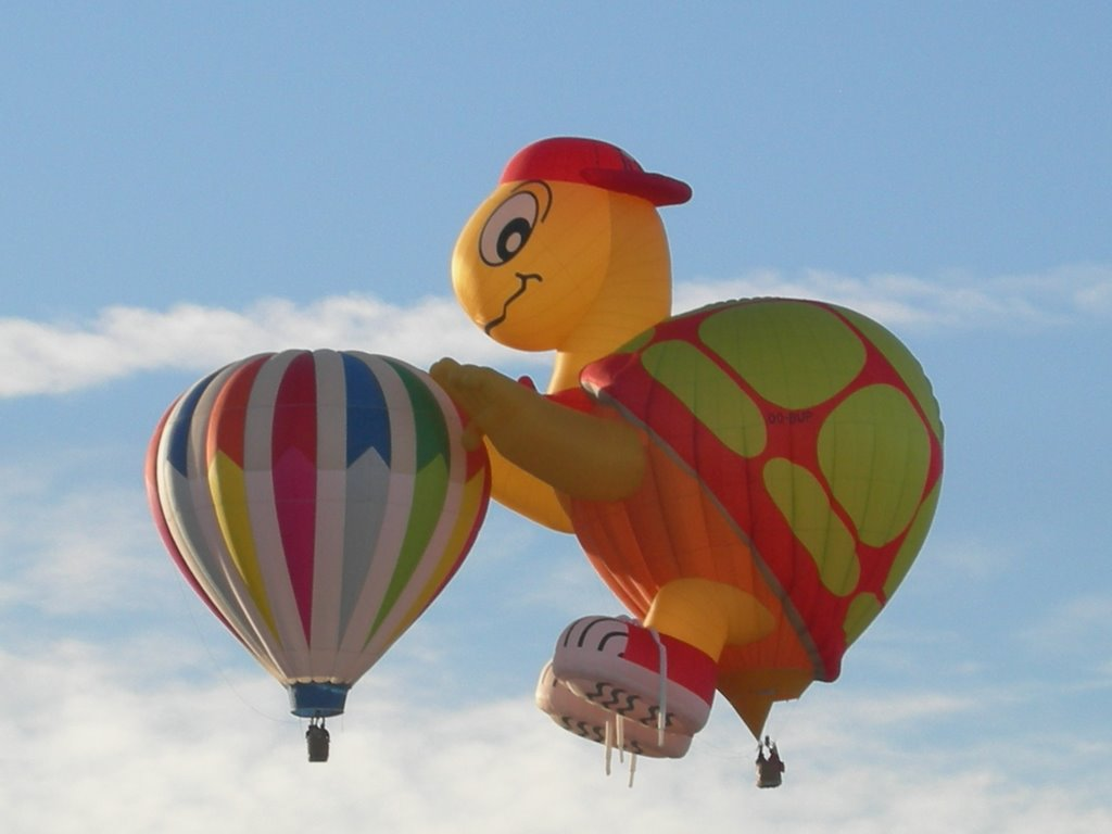 Mr. Bup has very soft hands...